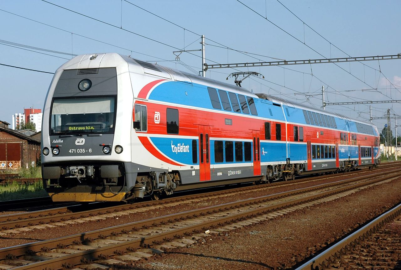 EMU with head coach 471.035 ČD, station Ostrava báňské nádraží VOK